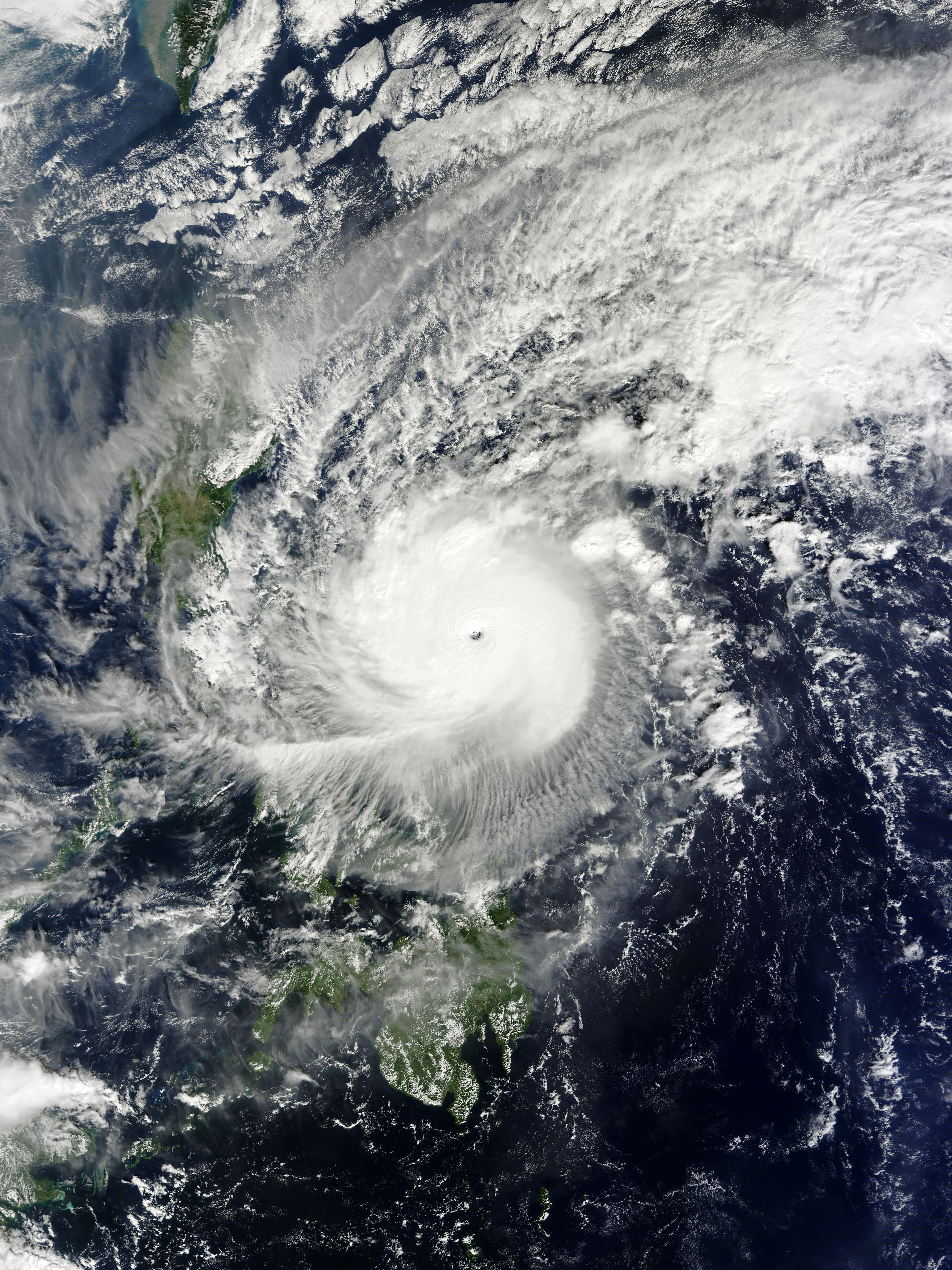 Typhoon Nock-ten approaching the Bicol Region of the Philippines at peak intensity on December 25, 2016.